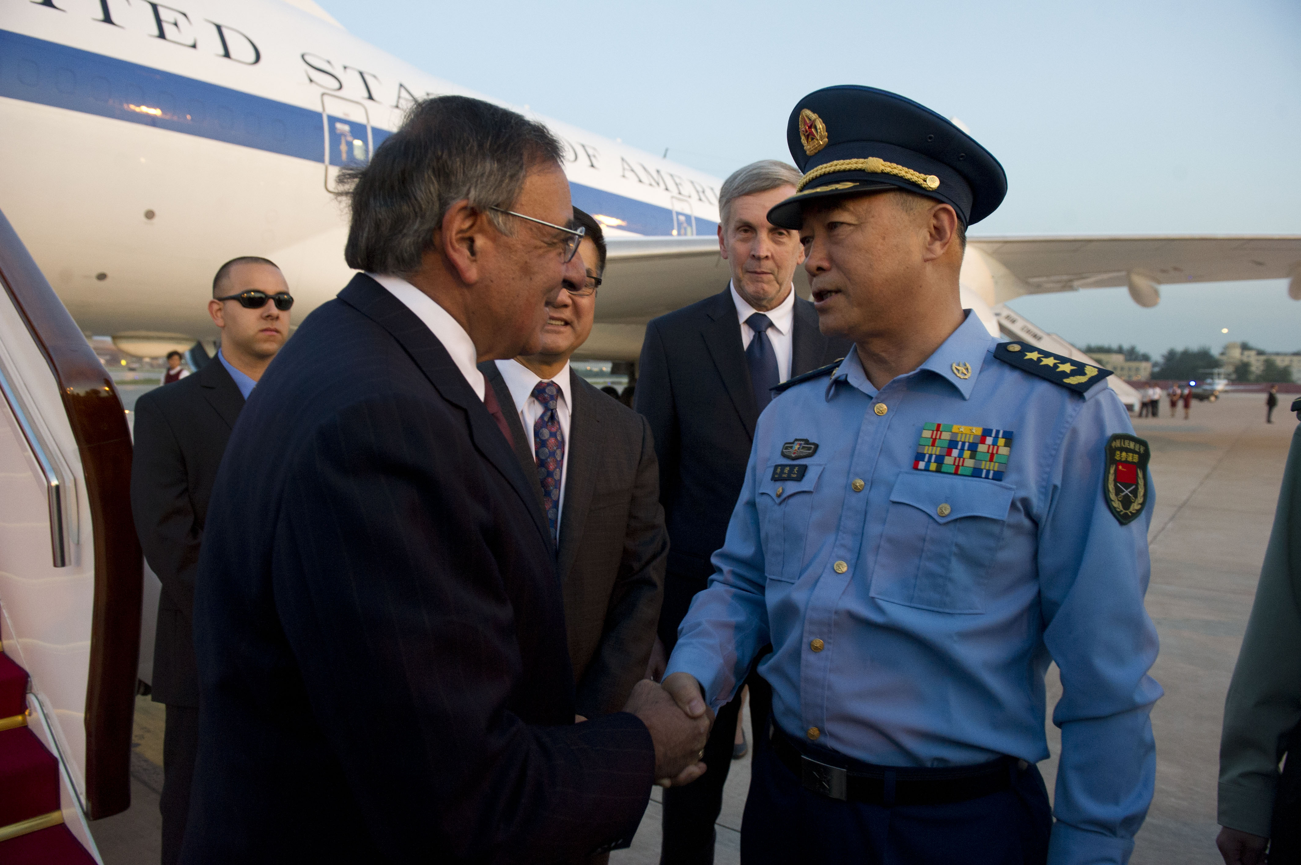 Secretary of Defense Leon E. Panetta is greeted by General Ma Xiaotian, deputy chief of General Staff of the Chinese Army, in Beijing China, Sept. 17, 2012. Panetta will visit with defense counterparts in Beijing, before traveling to Auckland, New Zealand on a week long trip to the Pacific.